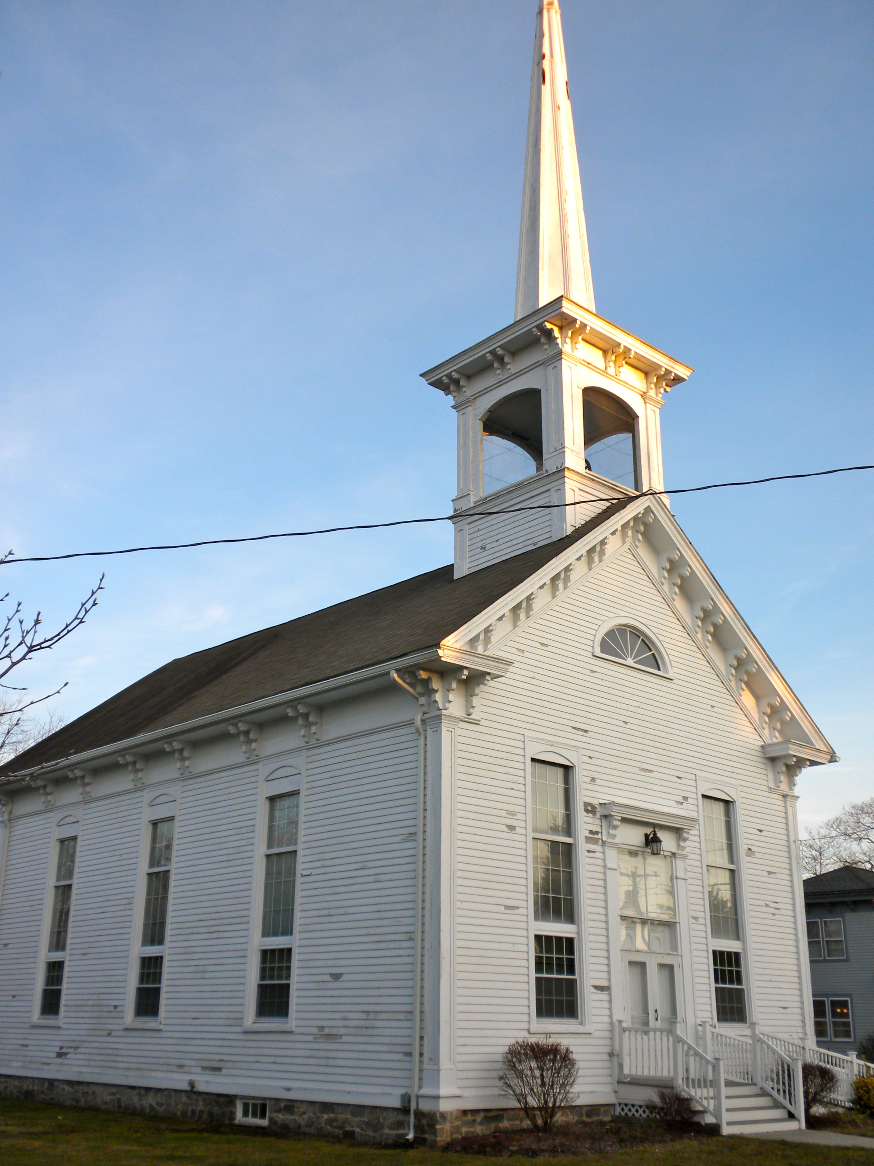 Dennisville United Methodist Church on Main Street in Dennisville, New Jersey Historic District on the NRHP. District is approx. between Petersburg Rd., Main St., Church Rd., Hall Ave., Fidler and Academy Rds., and NH 47. Church built 1869